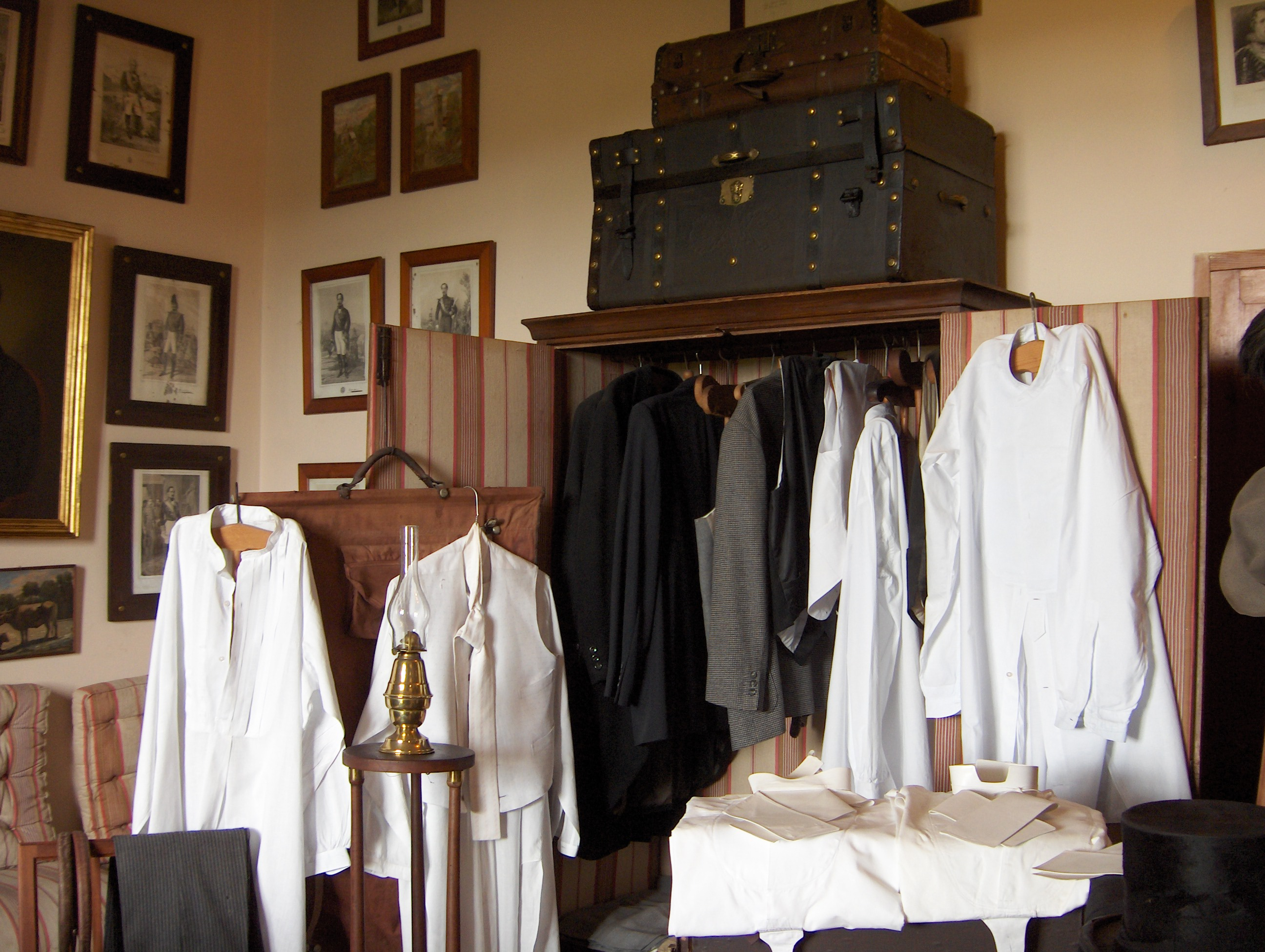 Els Calderers: Dressing room for the landlord